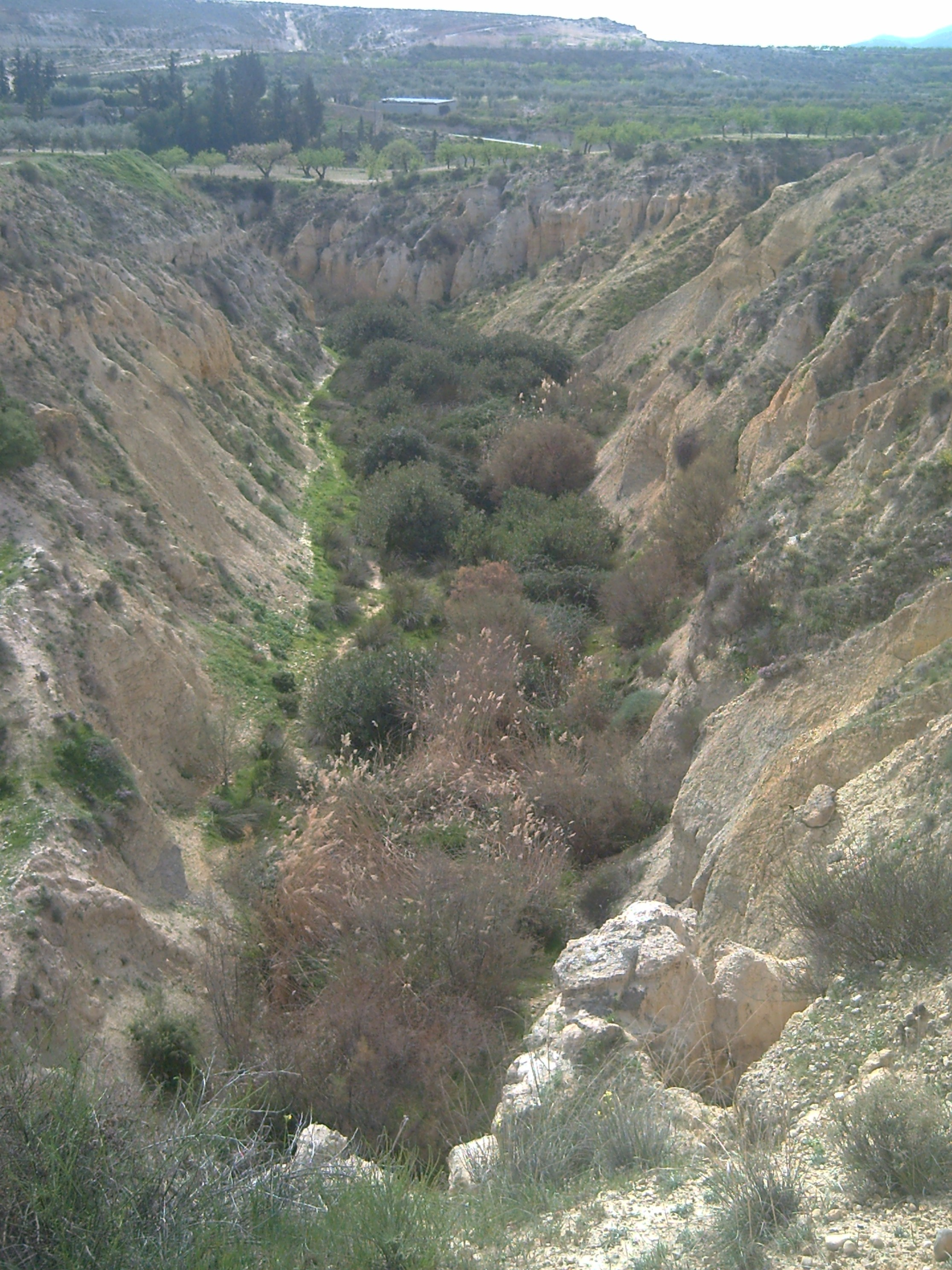 Rambla en Fuente Librilla, municipio de Mula (Murcia, Reino de España)